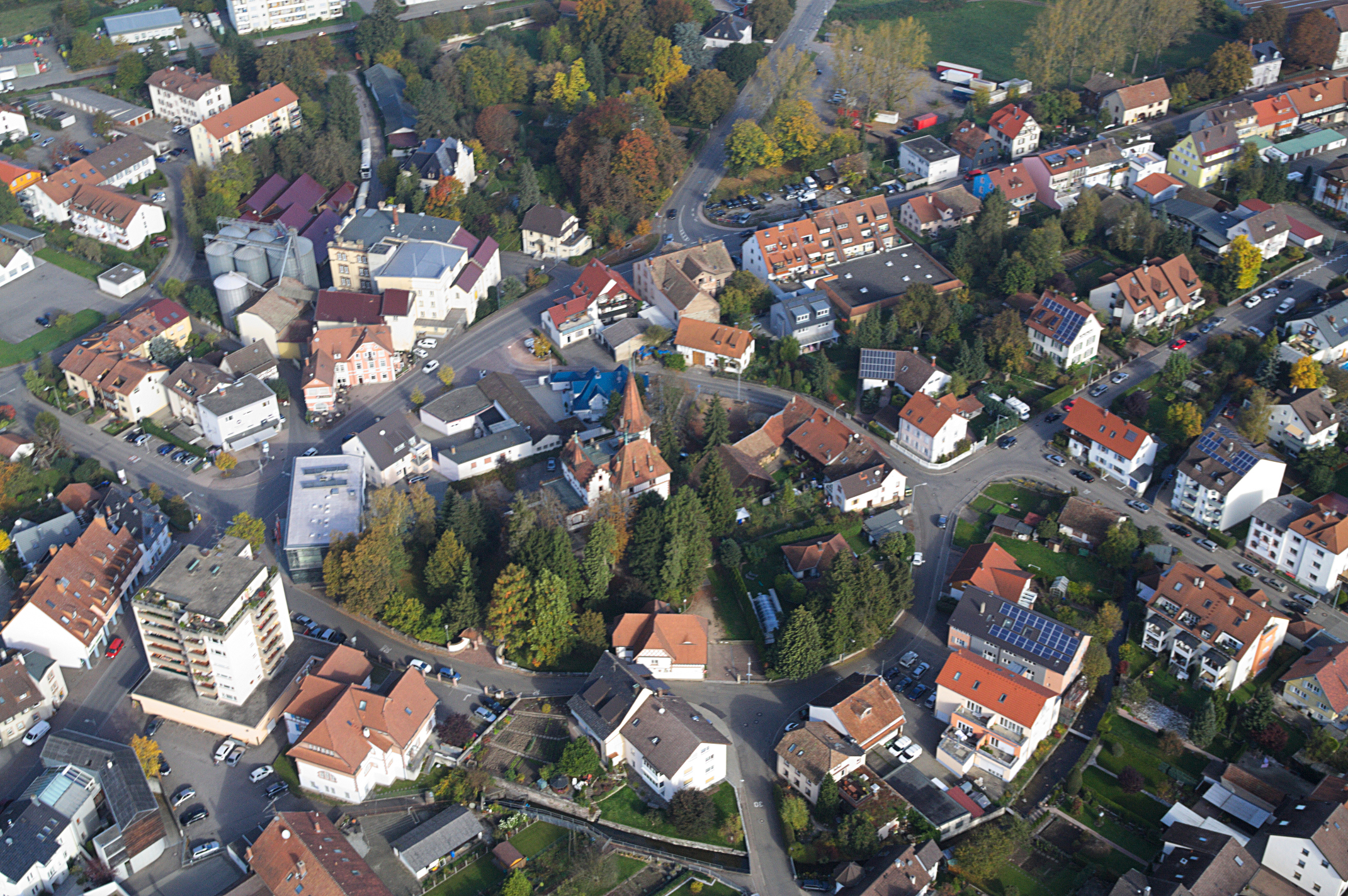 Aerial view of downtown Lörrach-Brombach